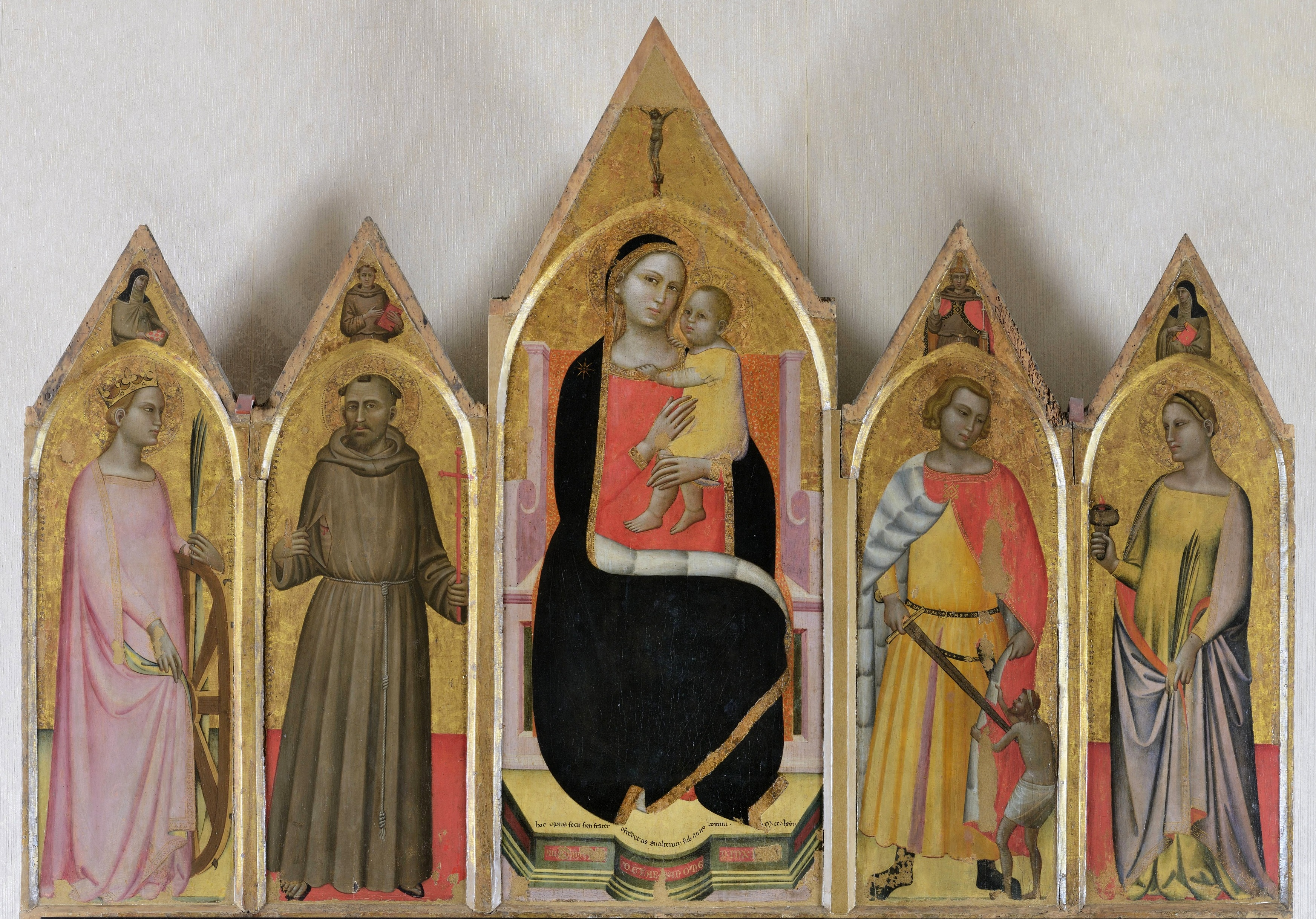 Allegretto Nuzi, Madonna con il Bambino in trono tra santi, tempera su tavola. Apiro (MC), Palazzo Comunale